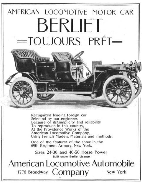 American Locomotive Automobile Company - Berliet - 1906